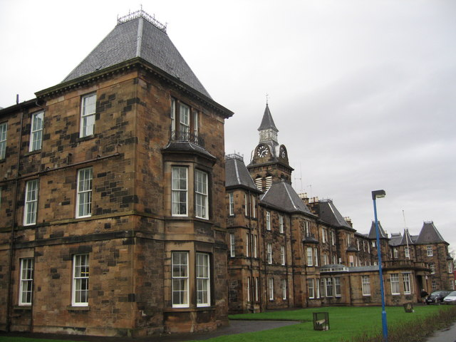 Southern General Hospital Large hospital in the Shieldhall area of Glasgow.